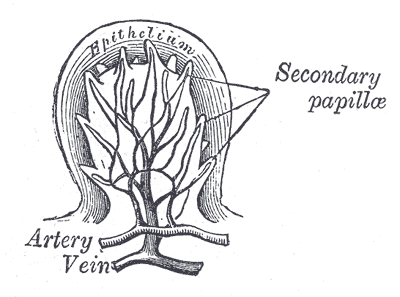 Section of a fungiform papilla. Magnified.